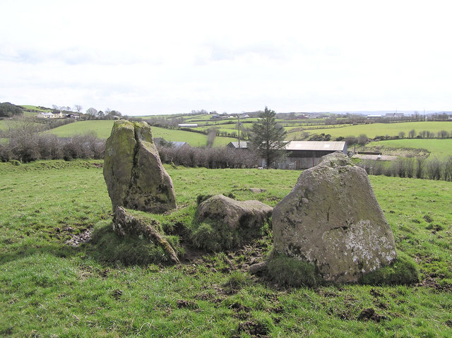 Portal Tomb at Altcloghfin, Sixmilesross. This is the remains of an elaborate structure, a type of megalithic tomb in use during the Neolithic or New Stone Age from about 3000 to 2000 BC. It is one of twenty such tombs known in Co Tyrone The tomb has three upstanding stones,some loose ones and a good deal of cairn material raising the area of the site above the level of the field. The most northerly stone is a backstone, the most southerly is a portal stone and the one in between is a sidestone. There would originally have been two portal stones which together with the backstone supported an impressive capstone. This was removed in the past and probably broken up. These sites are sometimes known as Druids Altars because of the large capstones, but they are actually burial places of the people who farmed in the area between 4000 and 5000 years ago.